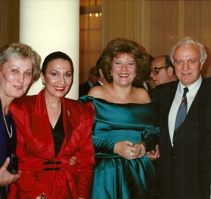 Cleopatra and Elena Obraztsova, Russian Mezzo-Sopranist (wearing Cleopatra design), Eduard Shevardnadze, former Soviet Foreign Minister, in Washington, DC